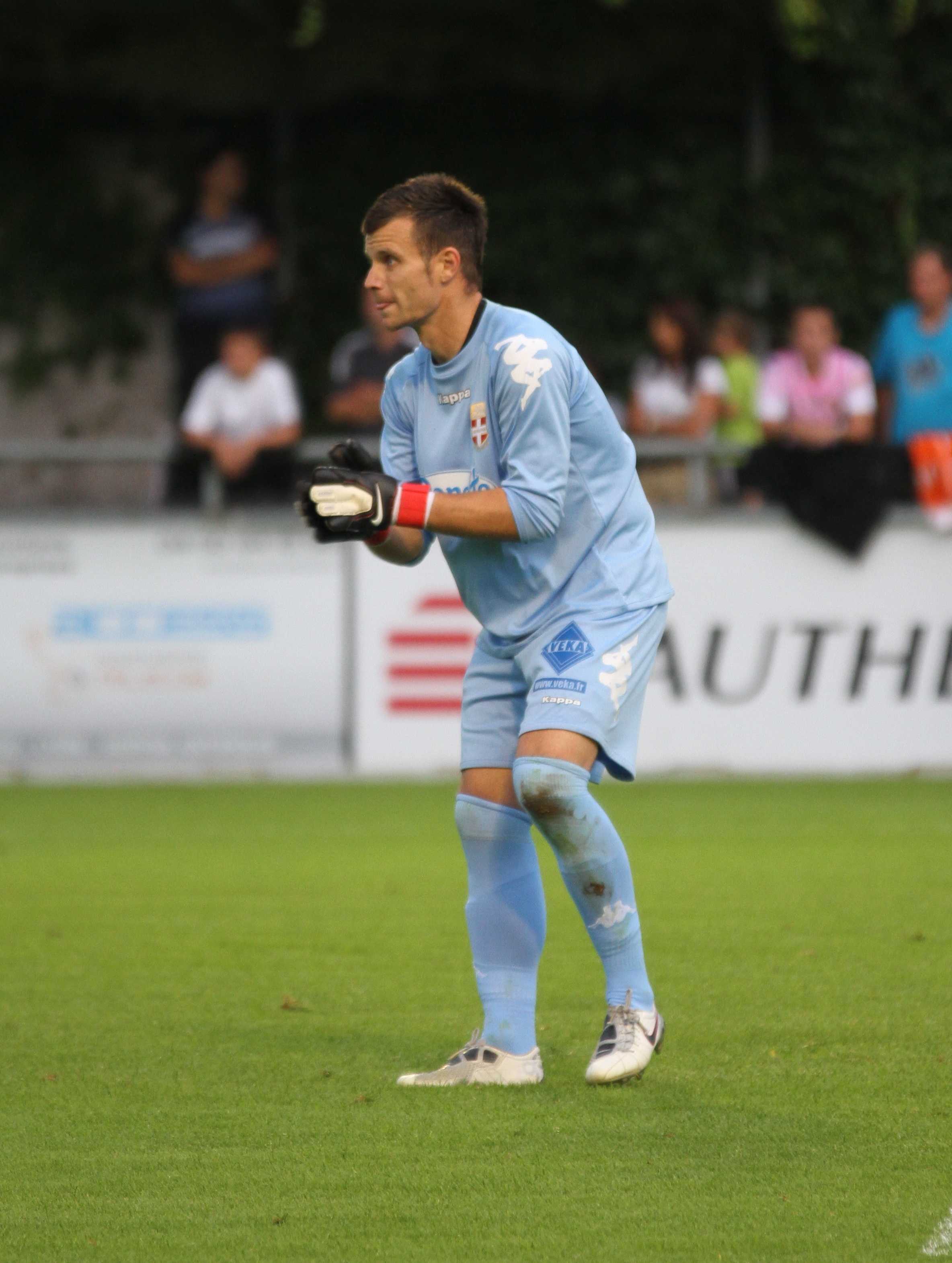 Quentin Westberg